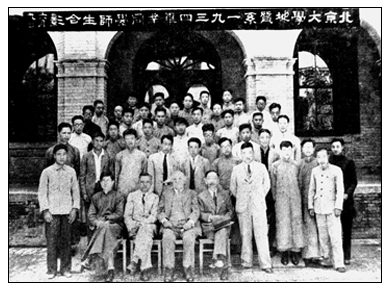 Department of Geology, Peking University